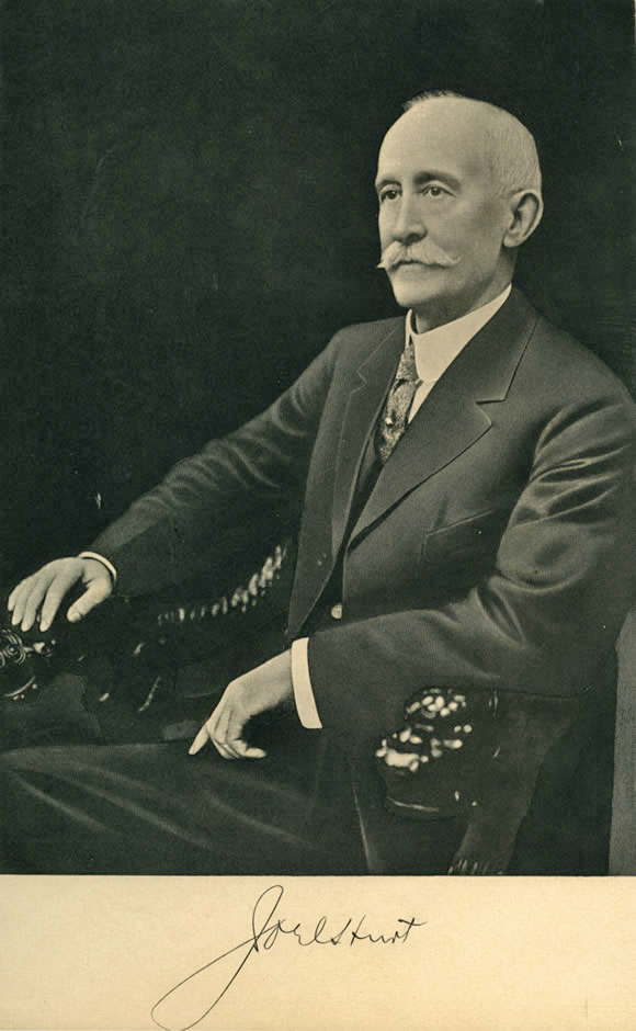 Joel Hurt about 1900